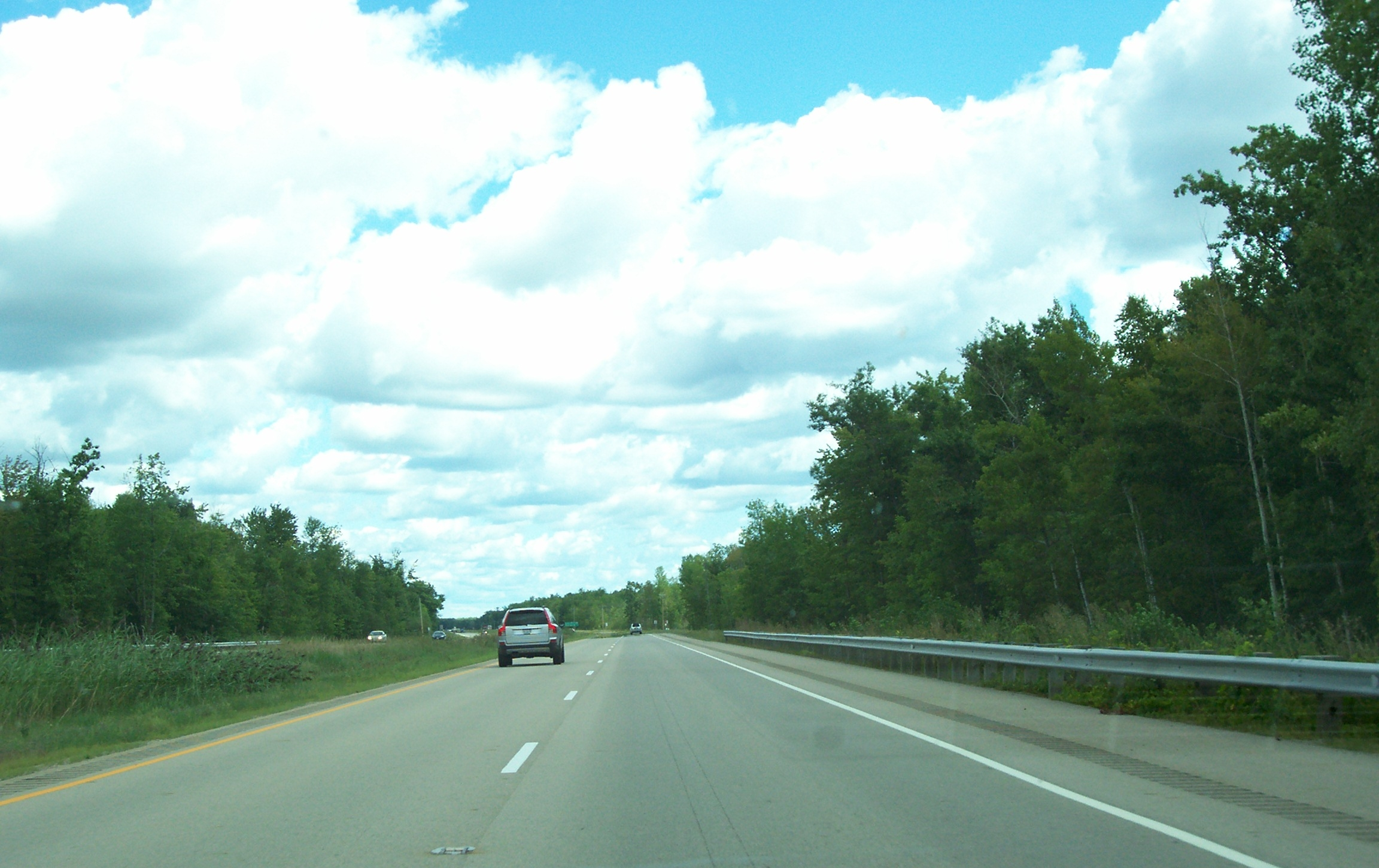 Looking north at U.S. Route 41, USA while traveling in Oconto County, Wisconsin.